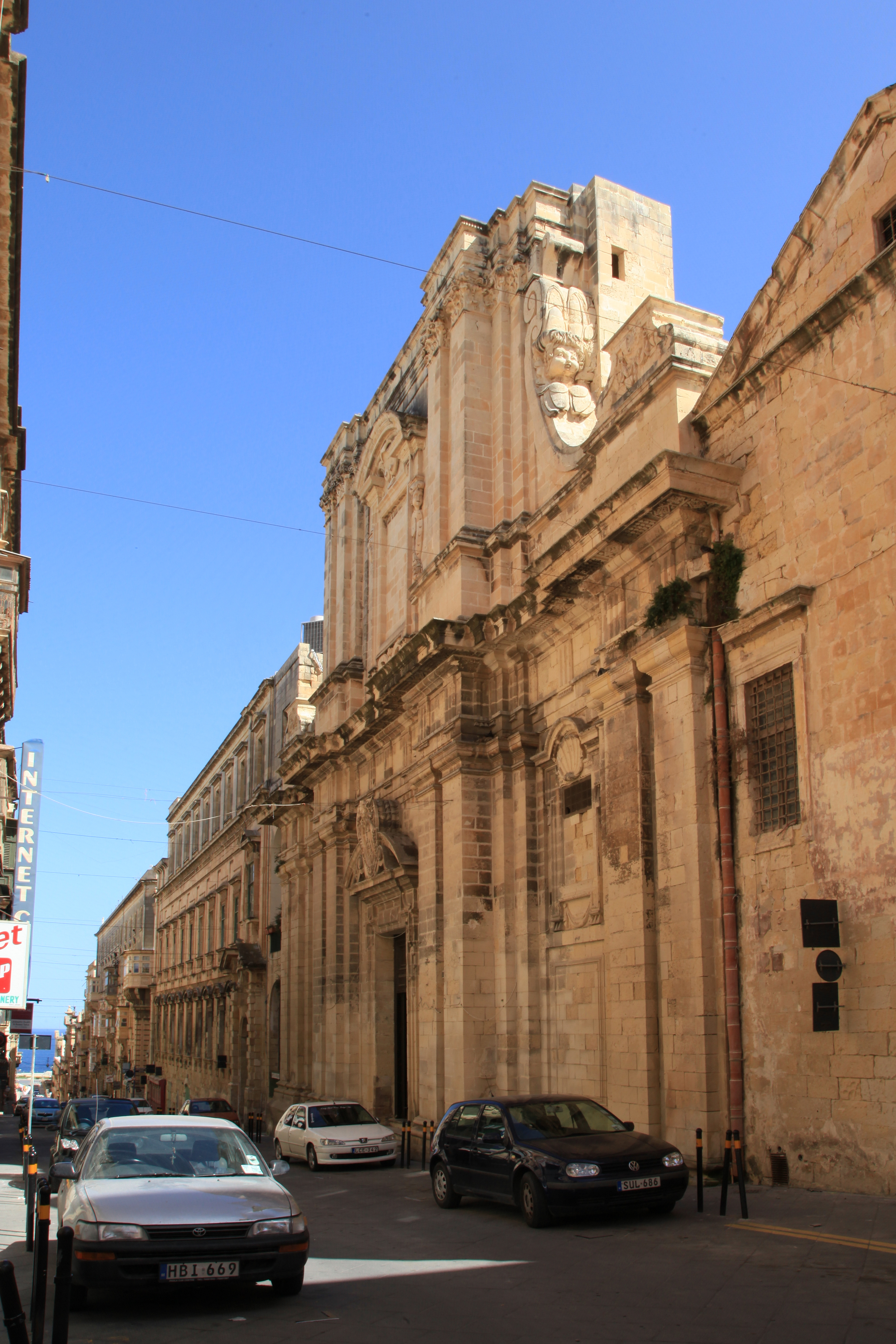 Triq il-Merkanti in Valletta, Malta